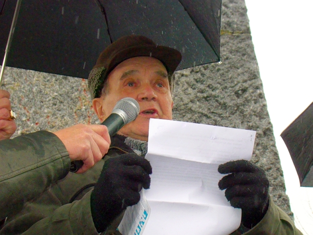 Monument of General Karol Świerczewski in Jabłonki